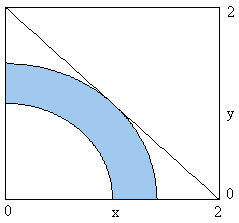 nonlinear programming